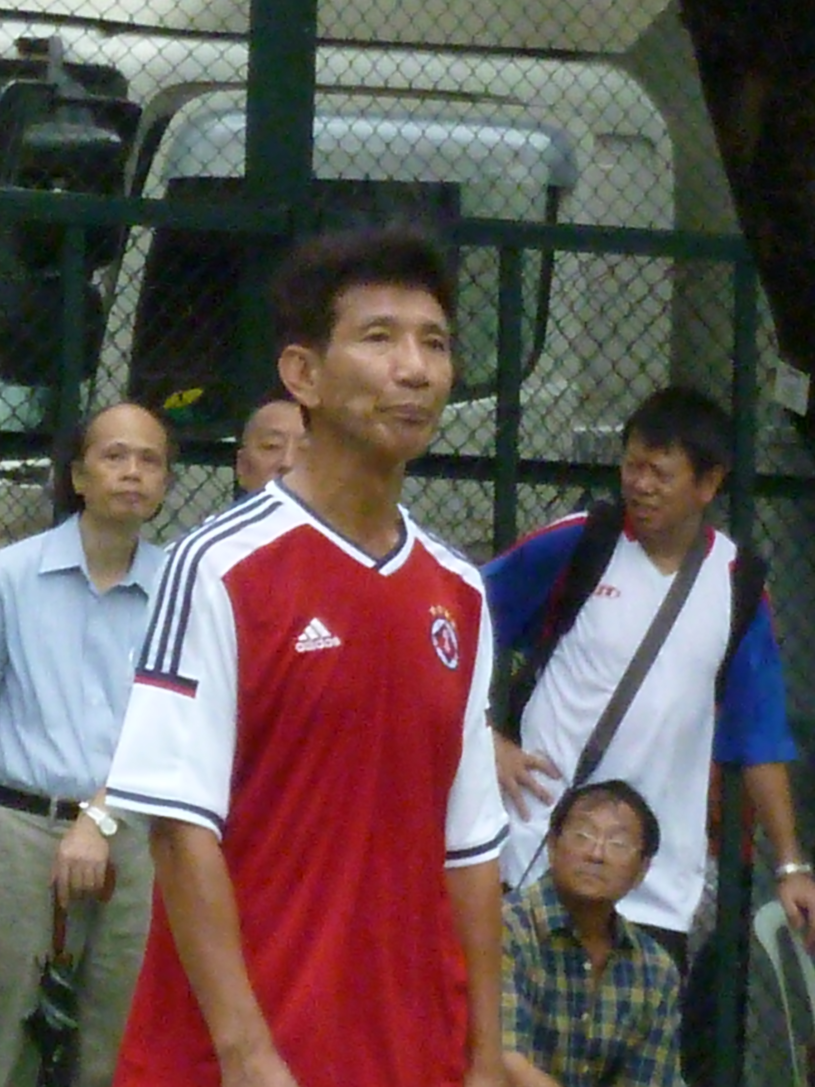 Choi York Yee (16 Aug 2015, memorial matches of Wu Kwok Hung, Macpherson Playground) 中文（香港）: 蔡育瑜 (16 Aug 2015, 胡國雄紀念賽, 麥花臣遊樂場)